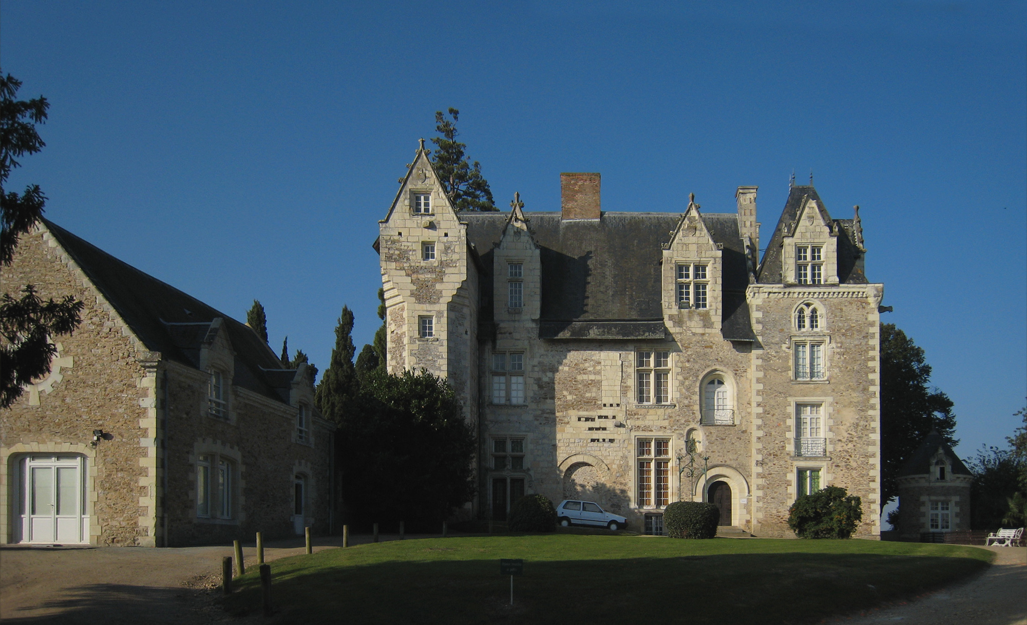 Castle of Villevêque, located in the village of Villevêque in the county of Maine-et-Loire/France.